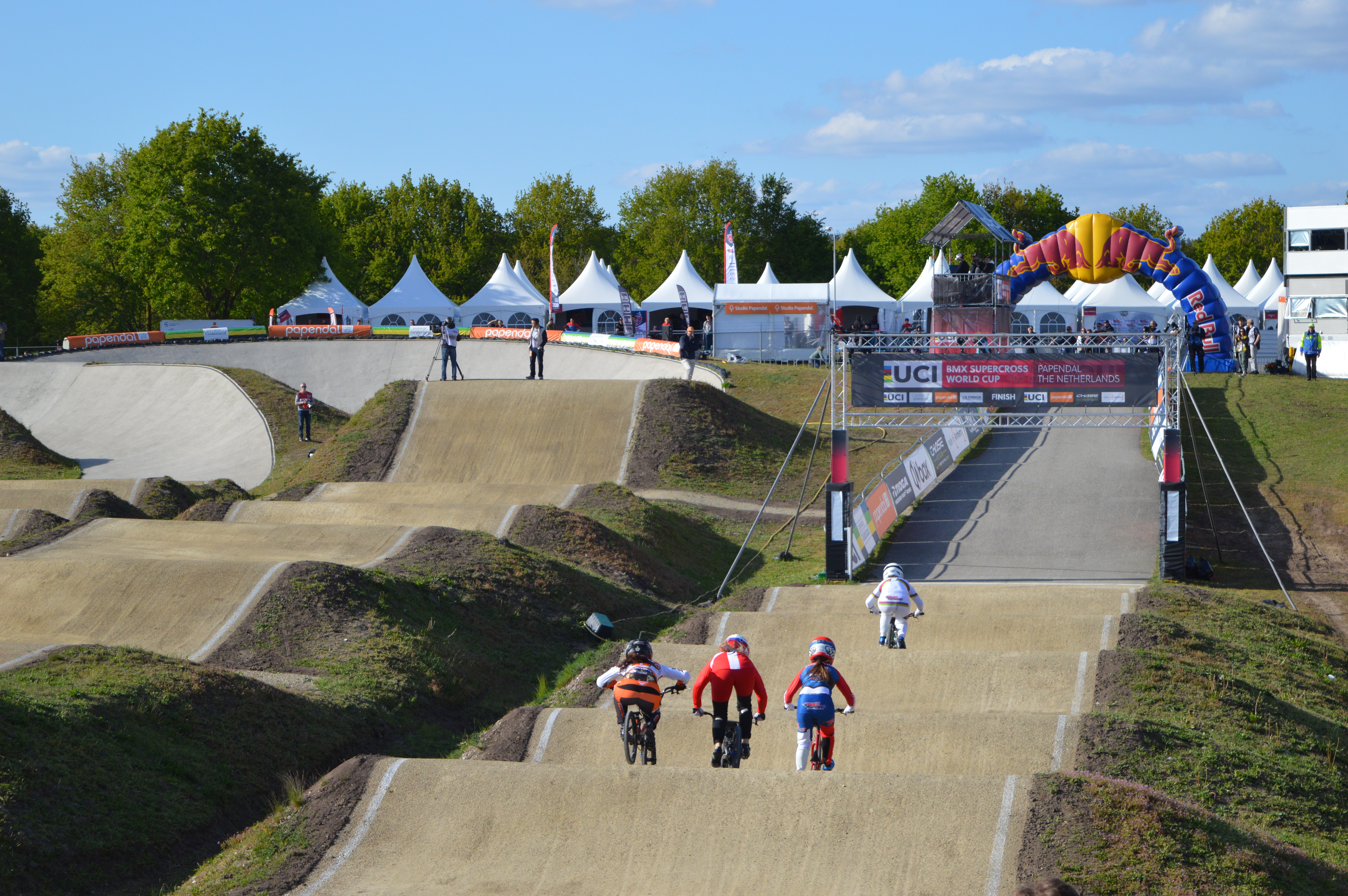 Photo is taken during the World Cup BMX 2019 in Papendal, The Netherlands. In front is ruling world champion Laura Smulders, followed by sister Merel Smulders, the Danish Simone Christensen and Judy Blaauw.